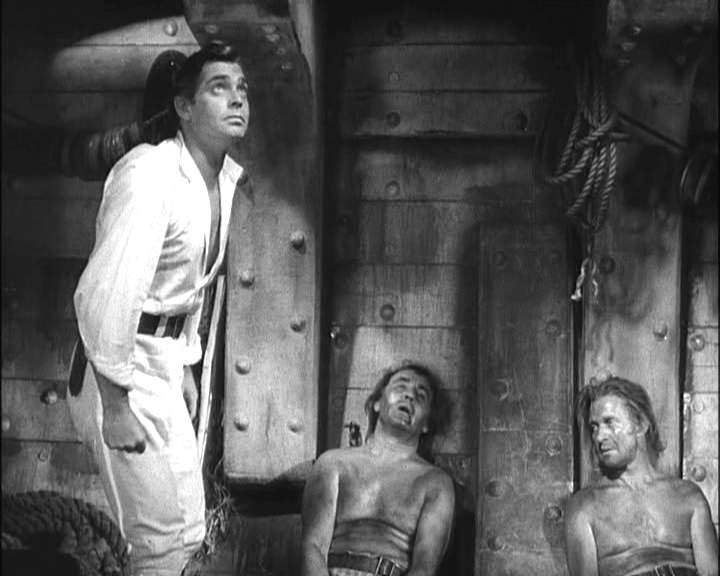 Clark Gable as Fletcher Christian in a screenshot from the trailer for the film Mutiny on the Bounty.